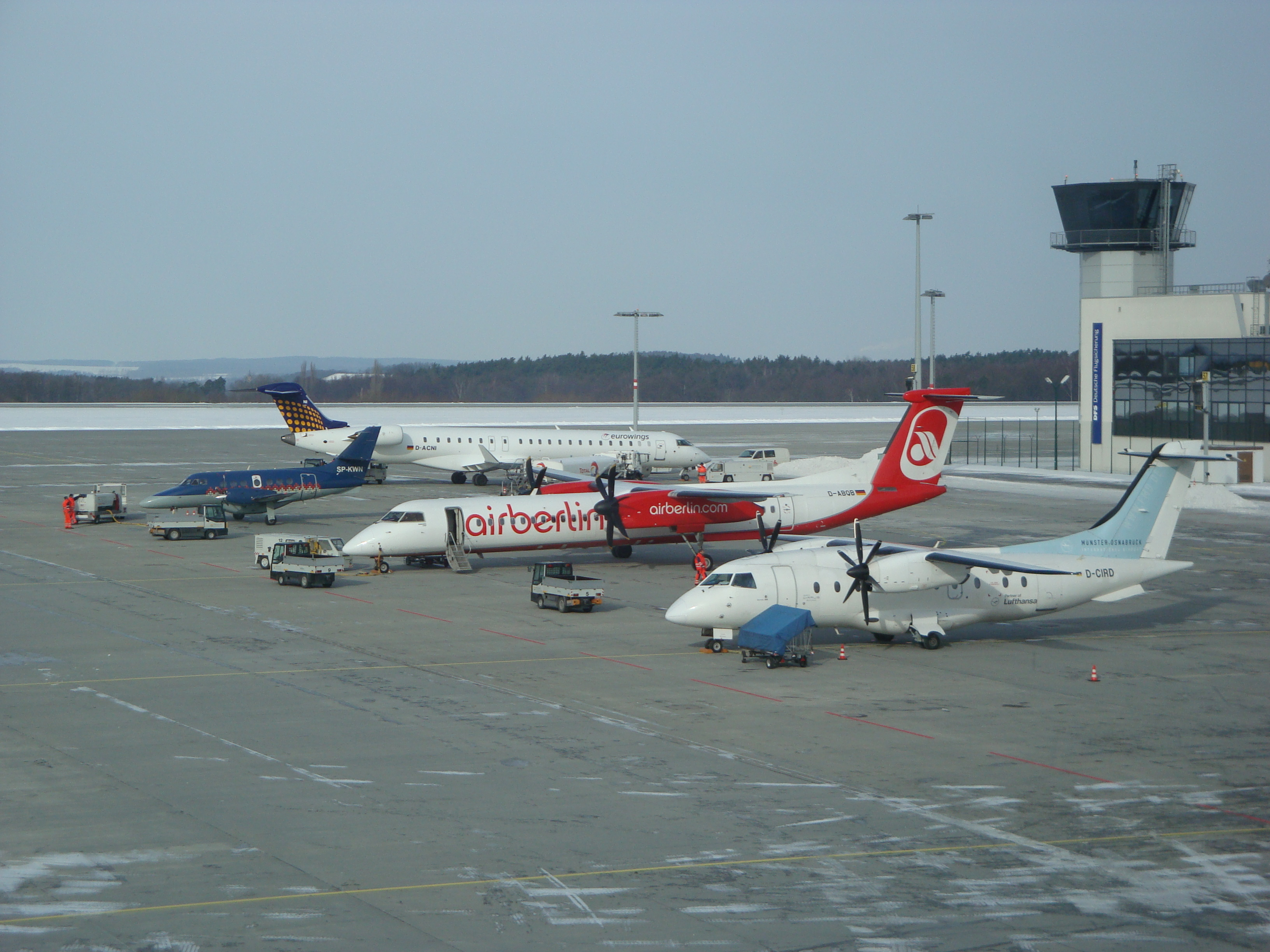 Aircraft handling on Ramp 3 at Dresden Airport